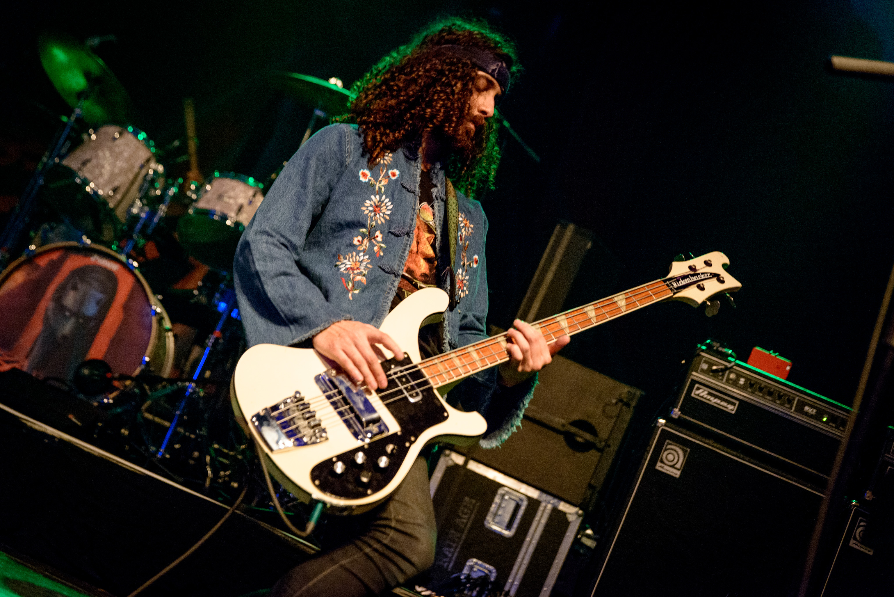 Wolfmother Live @ Munich 2016